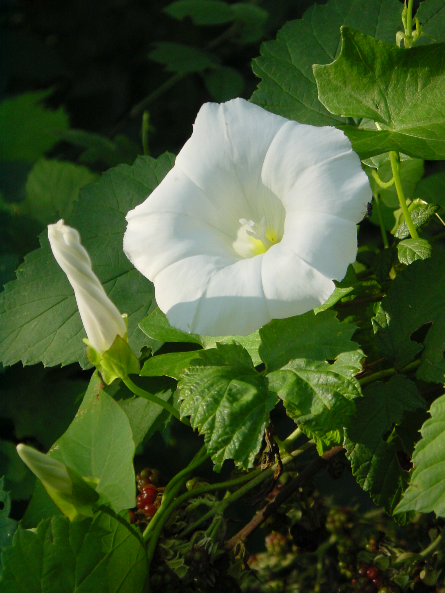 Three bindweed flowers at different stages of opening. Photo taken in undergrowth near Albertville, in the French Alps.